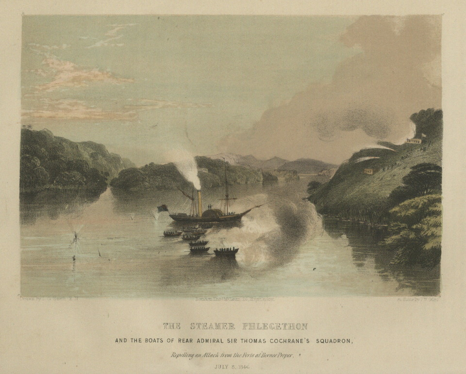 The Steamer Philegethon and the Boats of Rear Admiral Sir Thomas Cochrane's Squadron, Repelling an Attack from the Forts at Borneo Proper, By Captain Thomas Cochrane (1789–1873), Phlegethon, 8 July 1846.